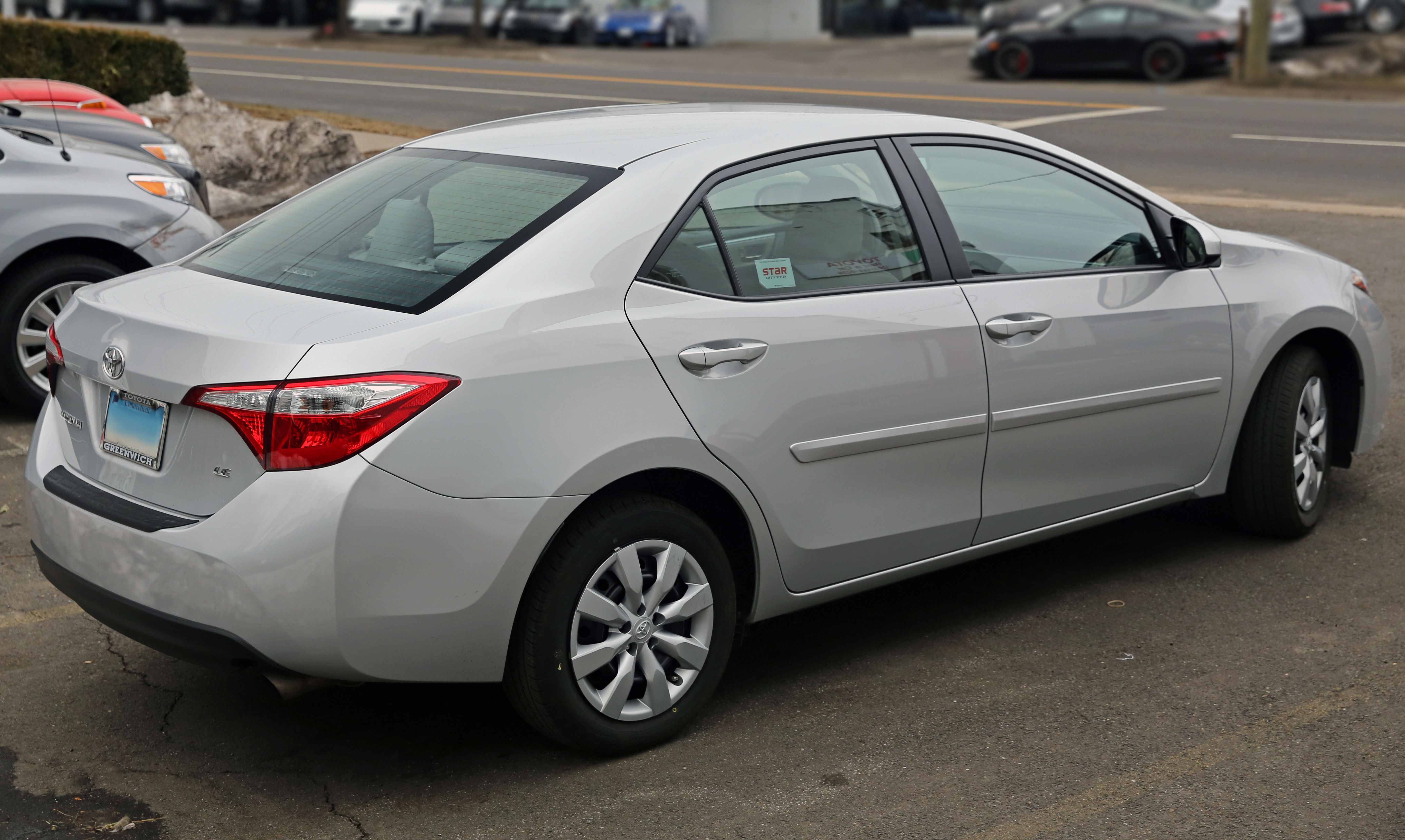 A 2014 US market Toyota Corolla 1.8 LE (ZRE172) in Greenwich, CT.